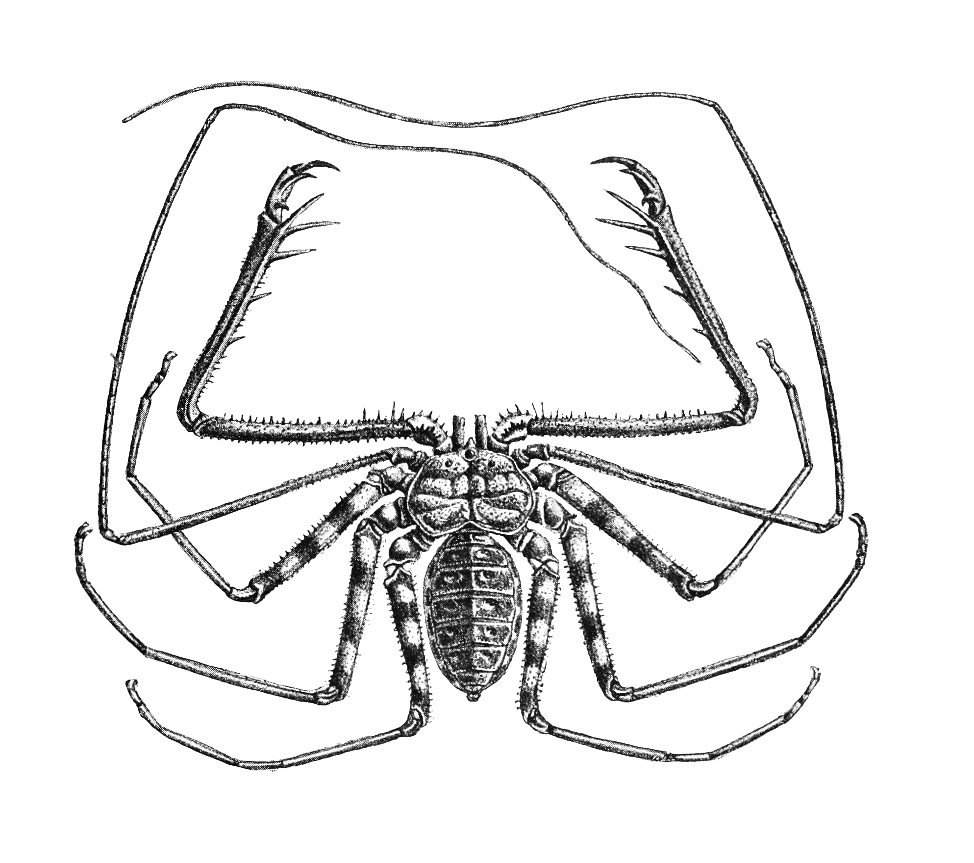 West african tailless whip-scorpion Damon johnstoni (=Titanodamen johnstoni; Arachnida: Amblypygi)